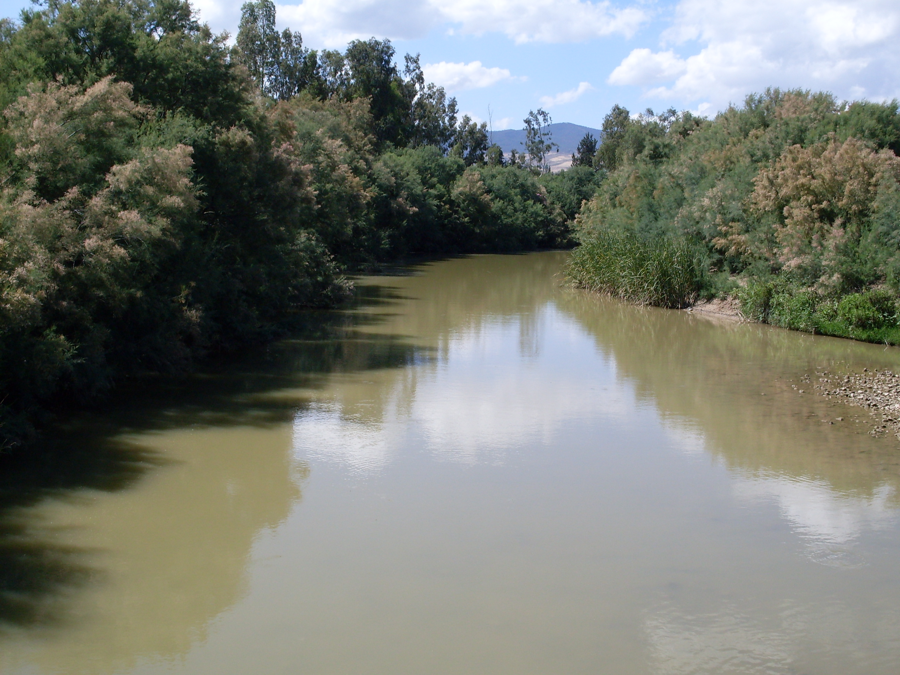 Oued Mliz, near Chemtou, Tunisia